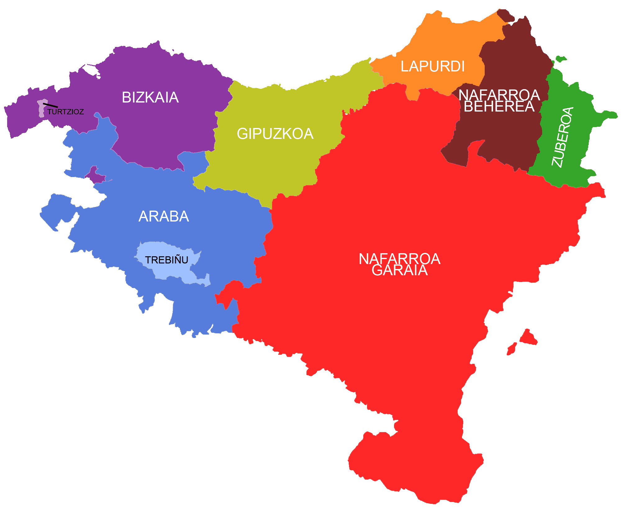 Coloured map of the historic Basque Country